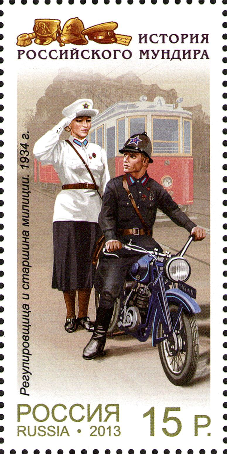 The History of the Russian Uniform (the ongoing series, issue I).The Ministry of Internal Affairs.A female traffic-controller and a Starshina of the Militsiya. 1934.The stamp of Russia, 15.00 Rubles, 8 November 2013, PTC Marka Catalogue No 1749, Michel No 1981. Coated paper. Offset printing. Perforation: comb 12×12. Size of the stamp: 32.5×65 mm. Print run: 320,000.